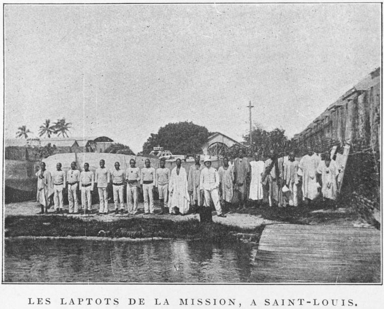 Laptots in Saint-Louis